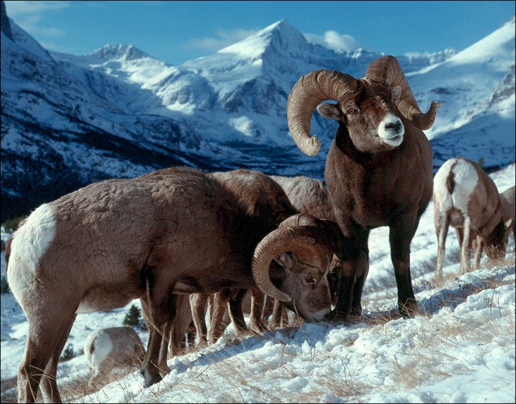 Bighorn Sheep (Ovis canadensis) in front of Mount Wilbur in Glacier National Park, Montana, USA.